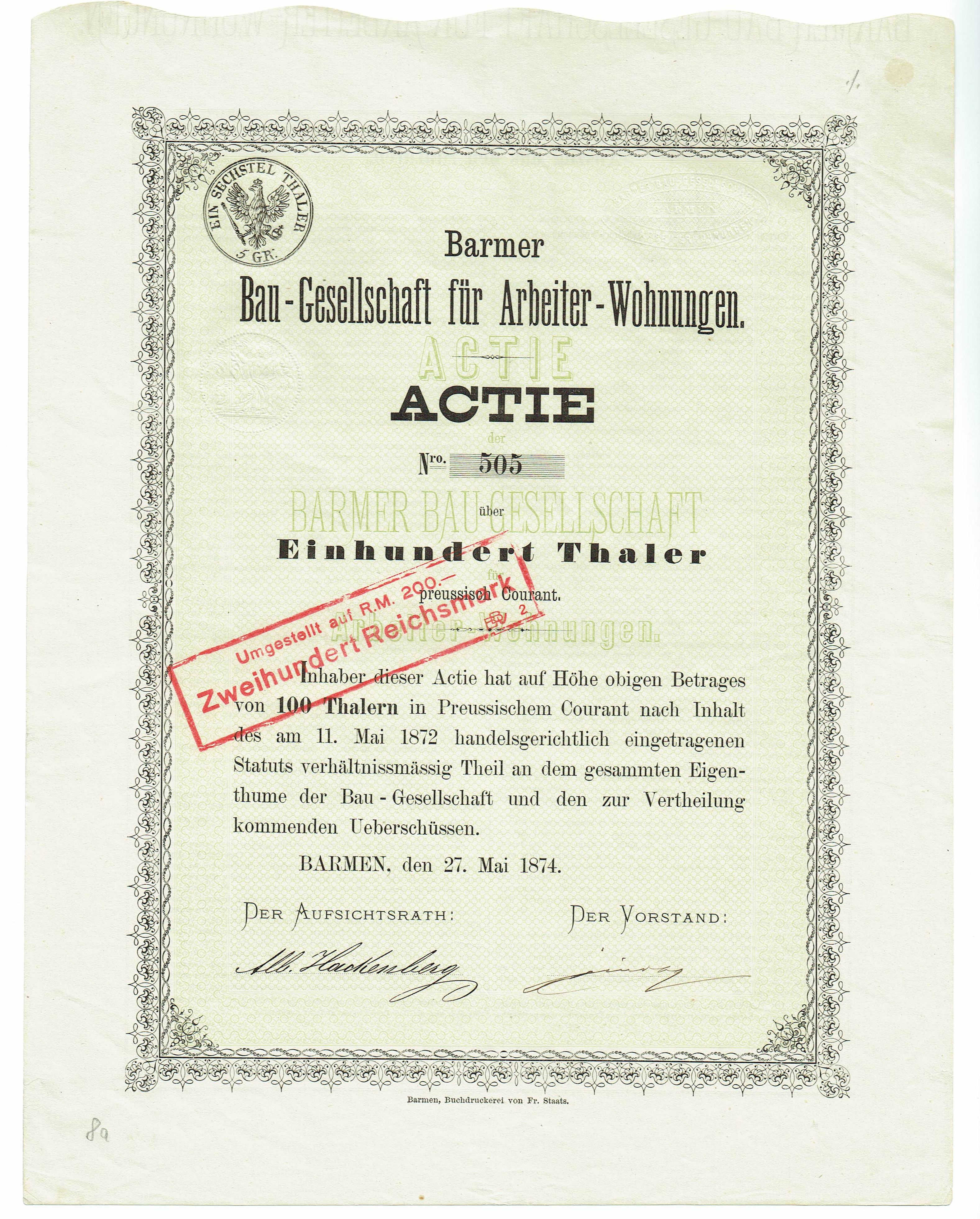 Share of the Barmer Bau-Gesellschaft für Arbeiter-Wohnungen, issued 27. May 1874